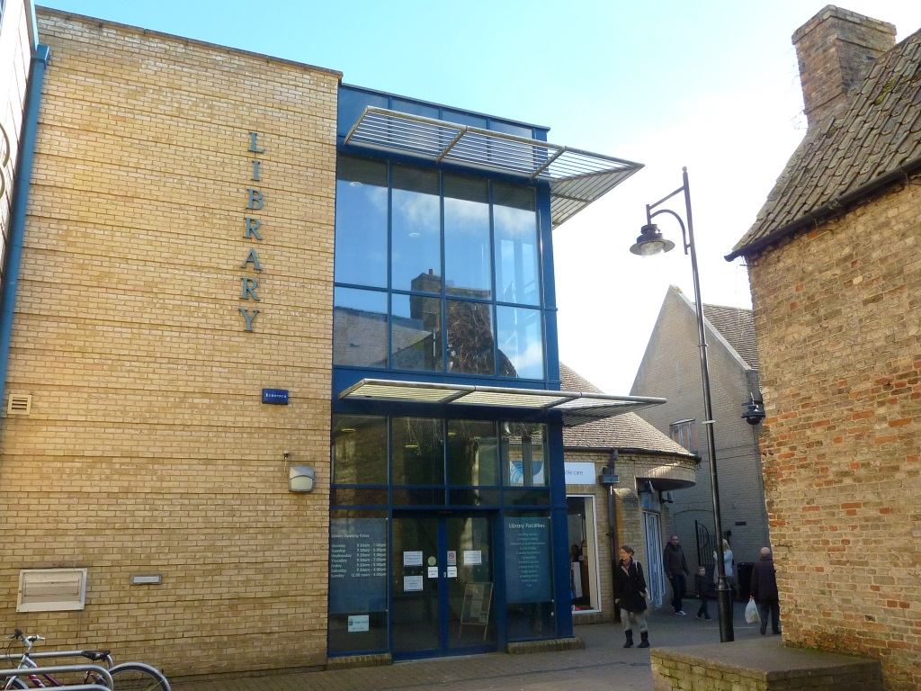 Open on a Sunday - and lots of people coming and going. Its right in the middle of a small modern shopping centre, about 5 minutes walk from the cathedral